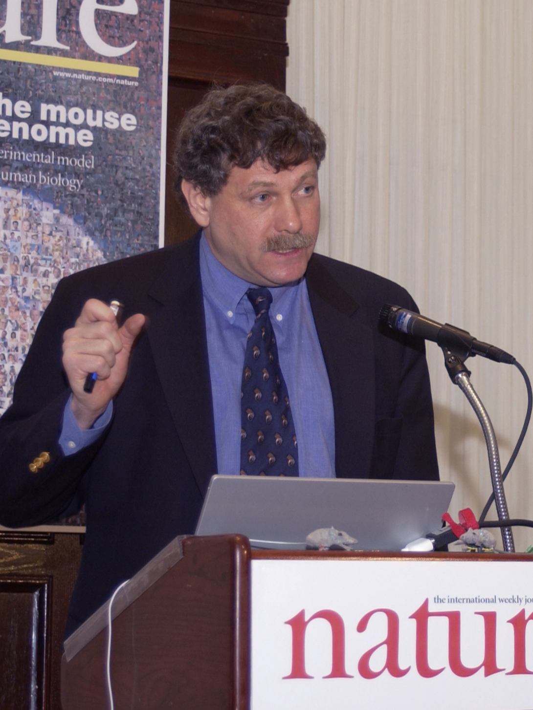 Dr. Eric Lander, Director of the Broad Institute of MIT and Harvard, speaks at the Mouse Genome Sequencing Press Conference on December 4, 2002.